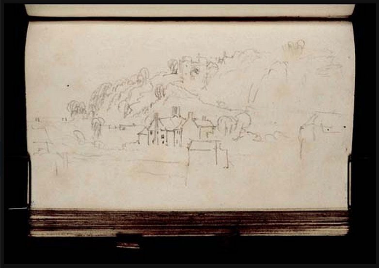 Drawing from the sketchbook of JMW Turner "From Richmond Hill; Hastings to Margate Sketchbook"